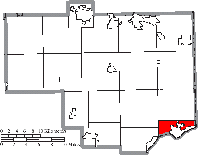 Map of the municipal and township boundaries of Columbiana County, Ohio, United States, as of the 2000 census, with the location of Liverpool Township highlighted. Township borders are shown only in unincorporated areas in order to differentiate incorporated and unincorporated areas more clearly.